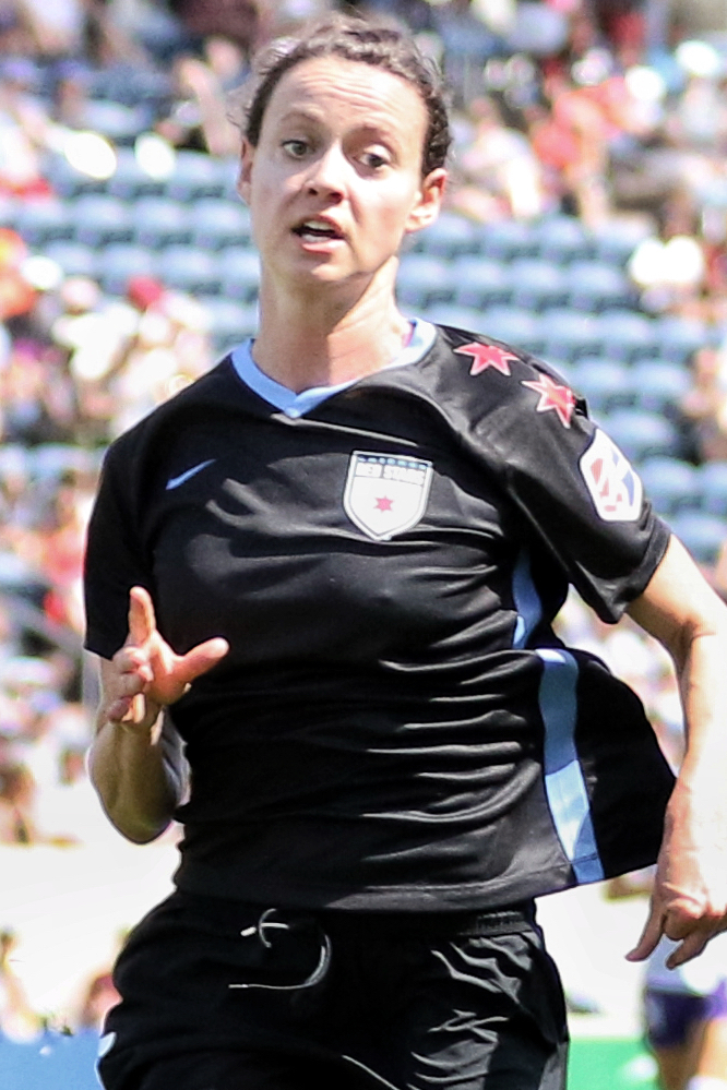 Taylor Comeau & Marta